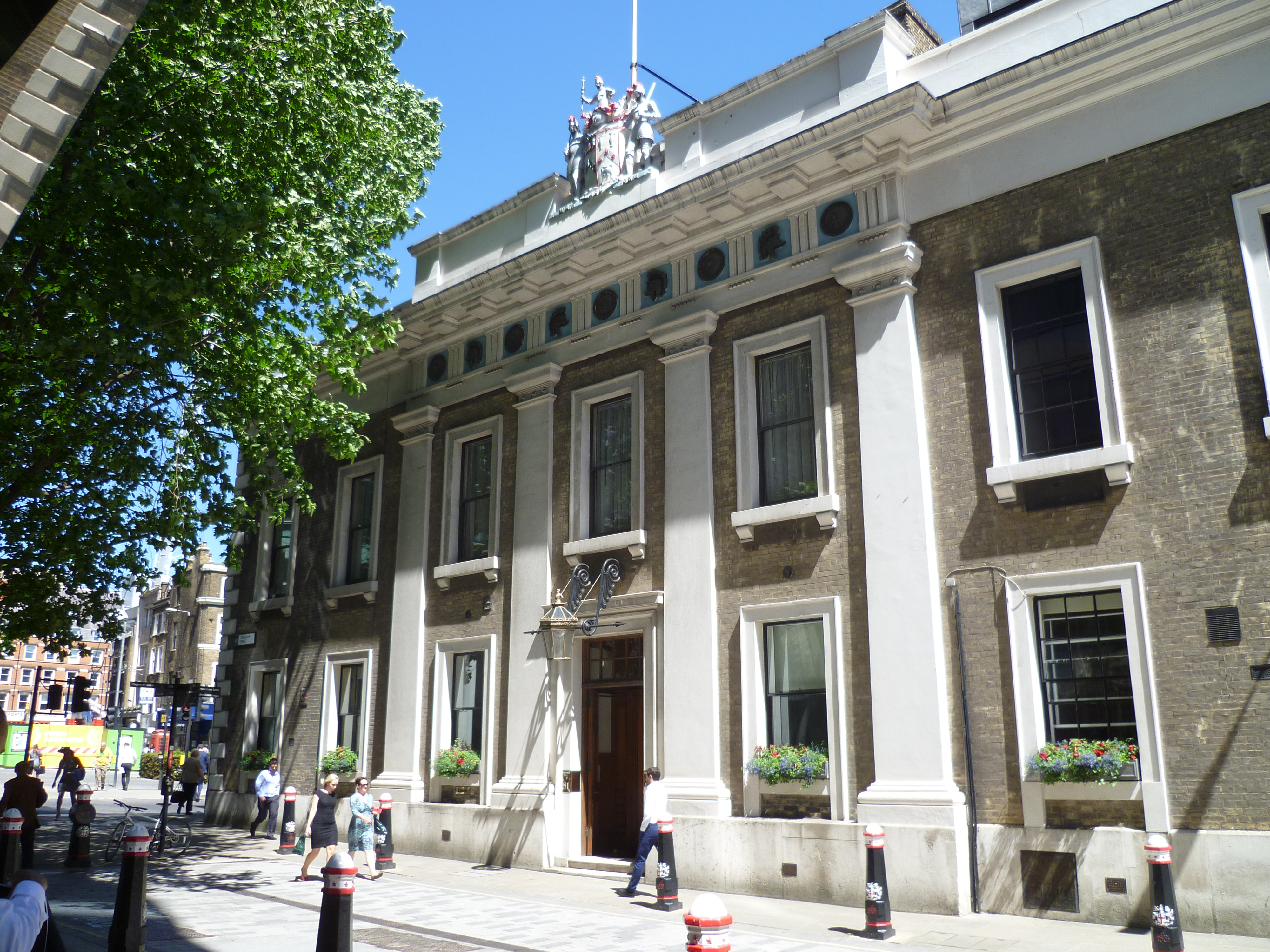 London